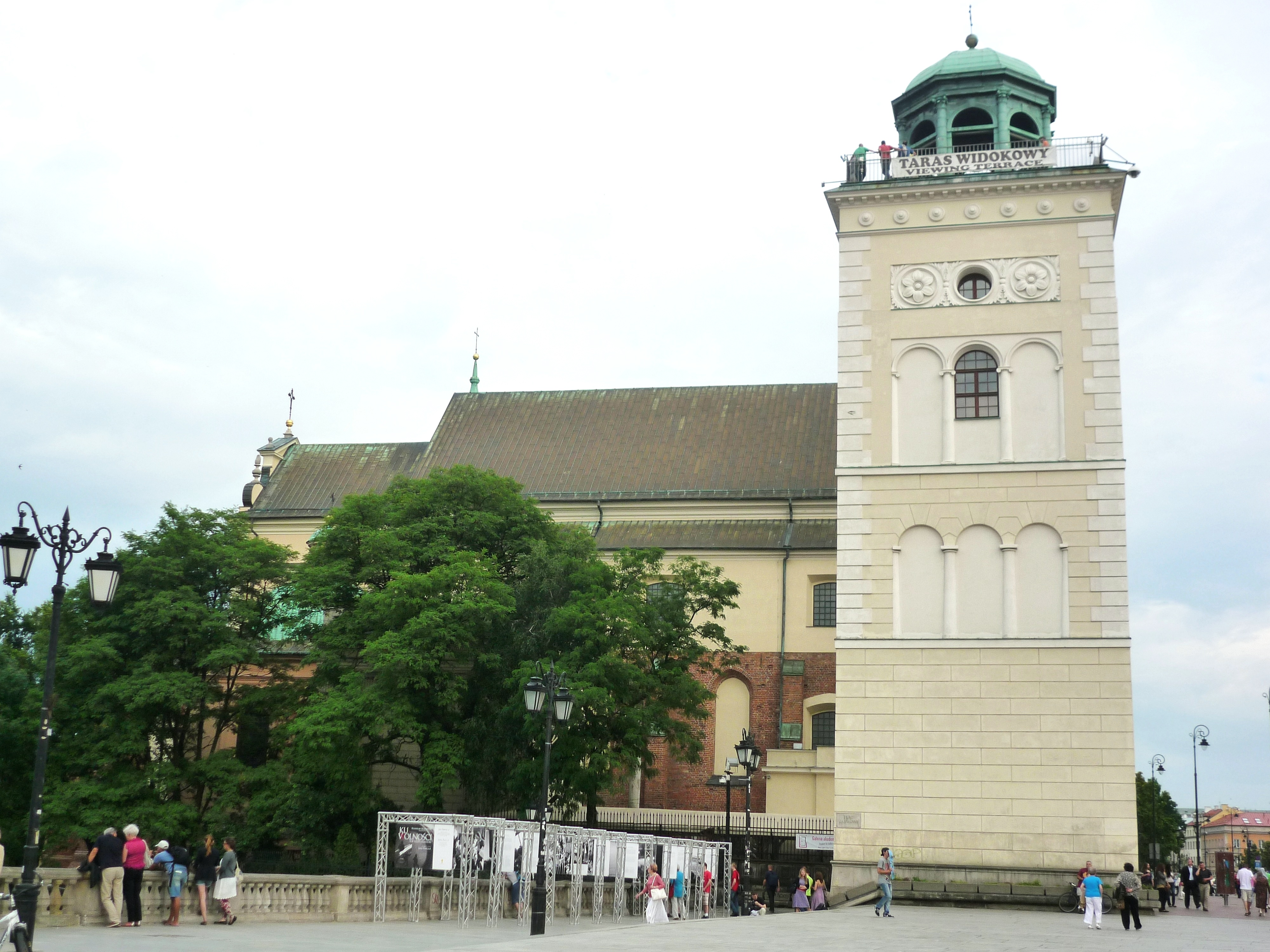 Warsaw - the Church of Saint Anne and the bell tower